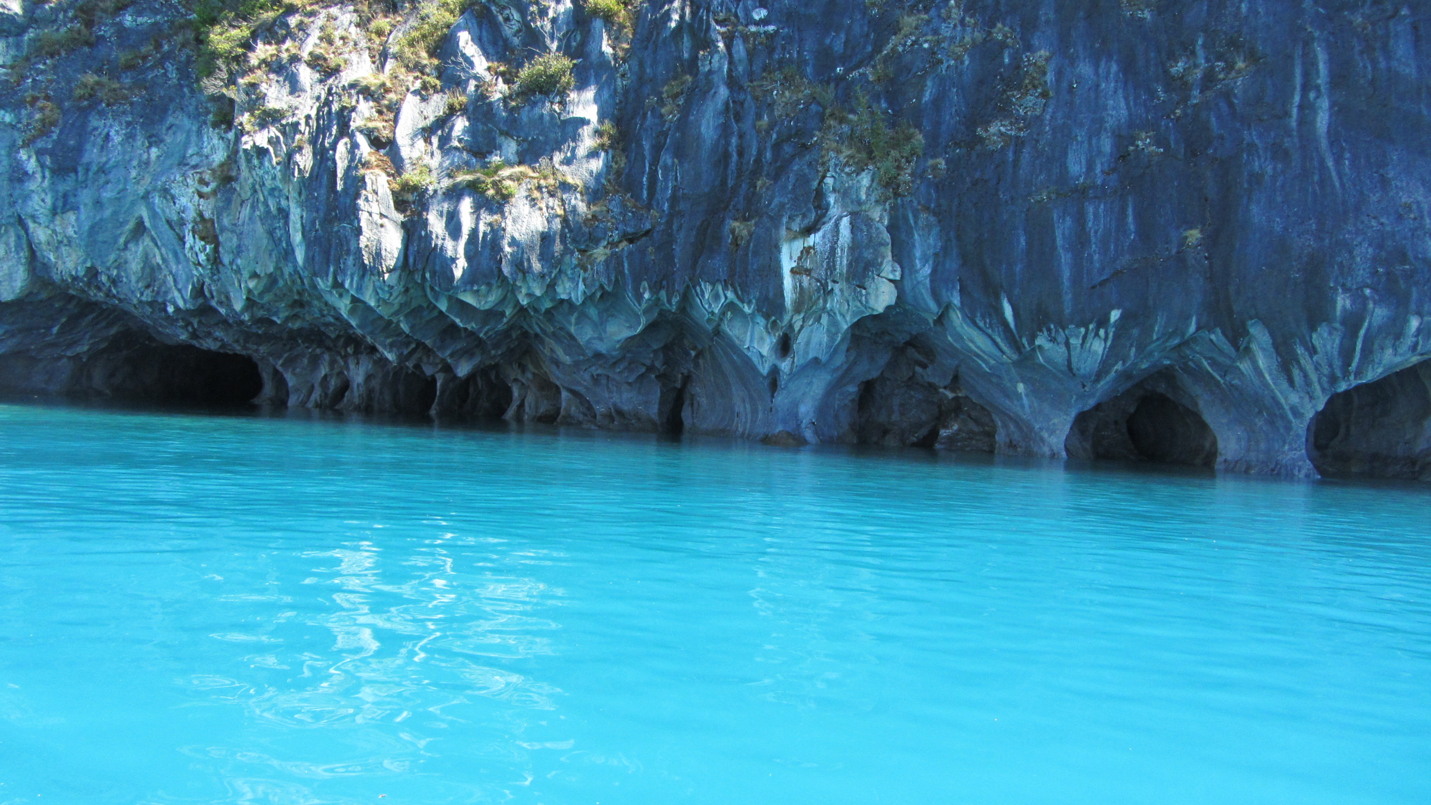 Cavernas de Mármol Lago General Carrera